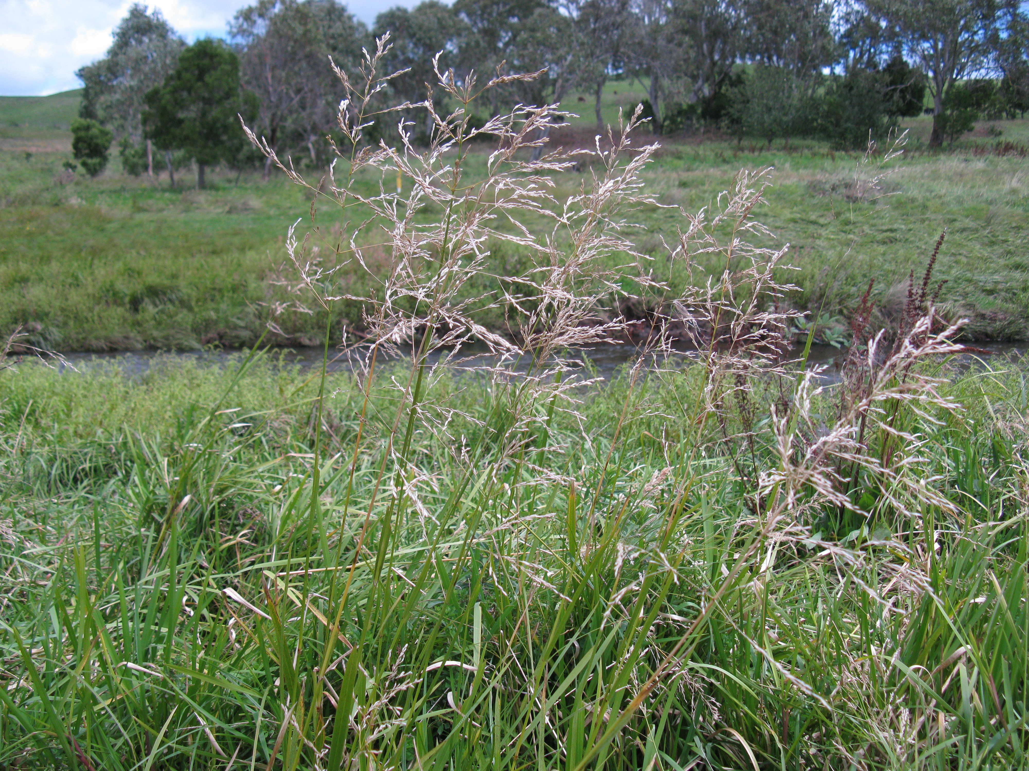 Flowerheads are open panicles 25-30 cm long, with 50-100 spikelets.